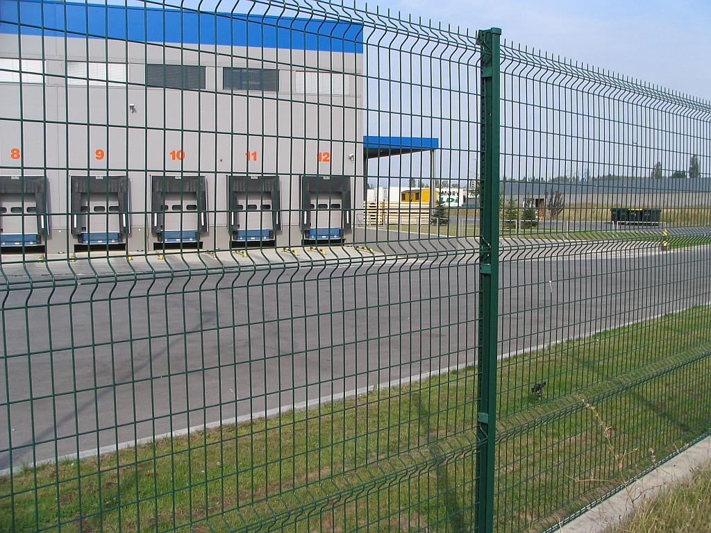 "Nylofor Medium" Fence Panel